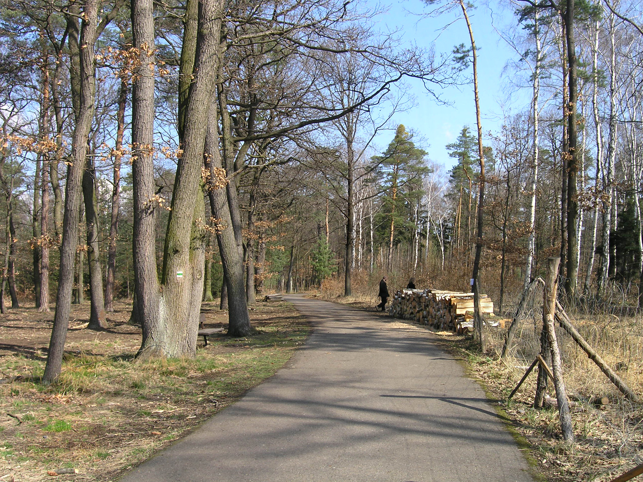 Central part of Kunratický forest, Prague